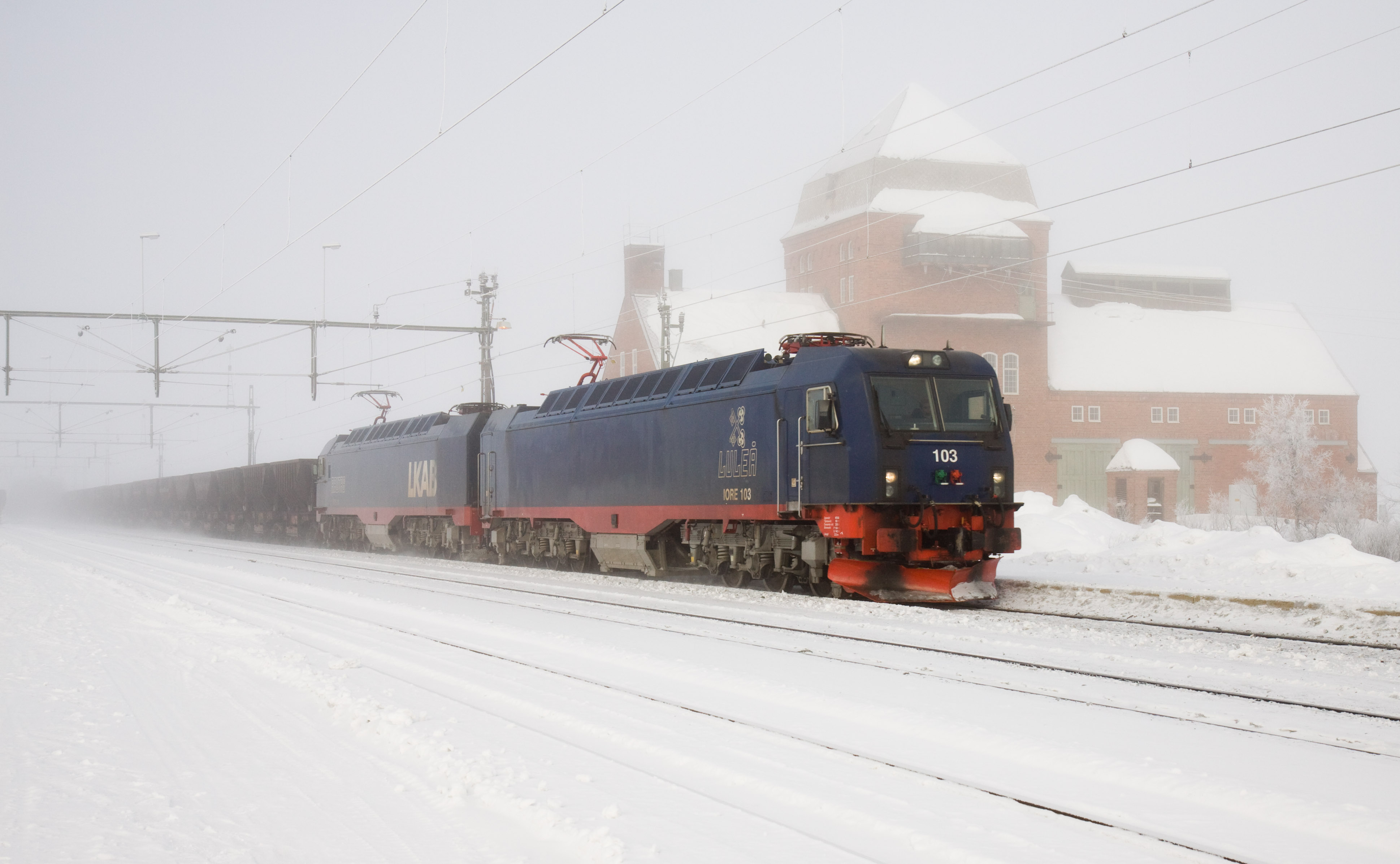 IORE passing Vassijaure station